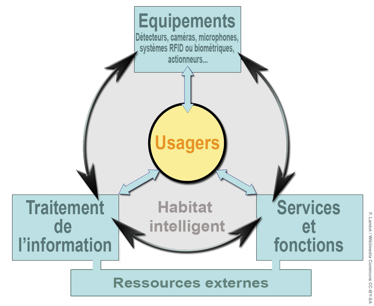 Schematic representation of themes relating to housing intelligence (advanced version of the home-automation of years 1970-80)